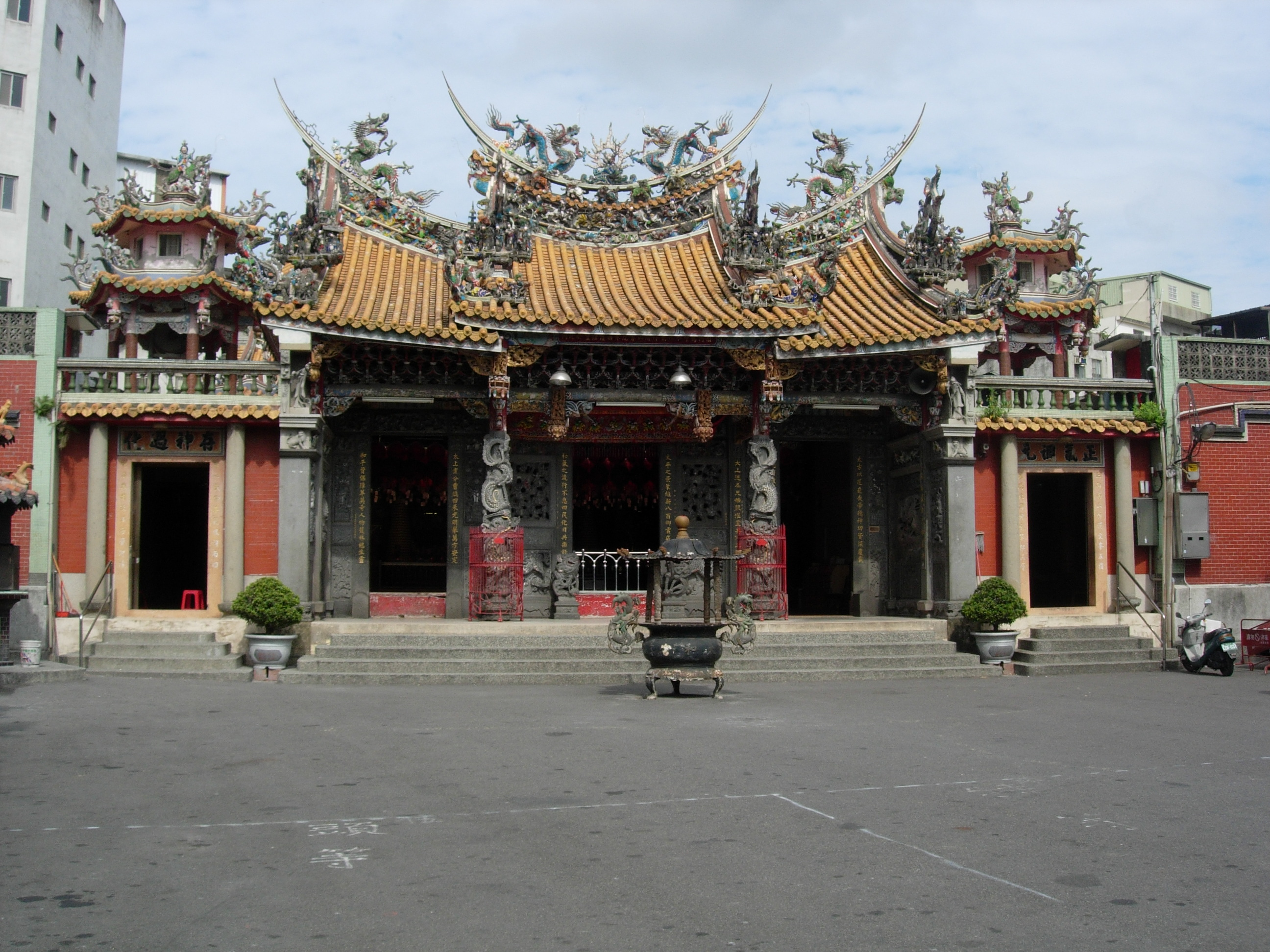 Kuanhsi Taihe Temple